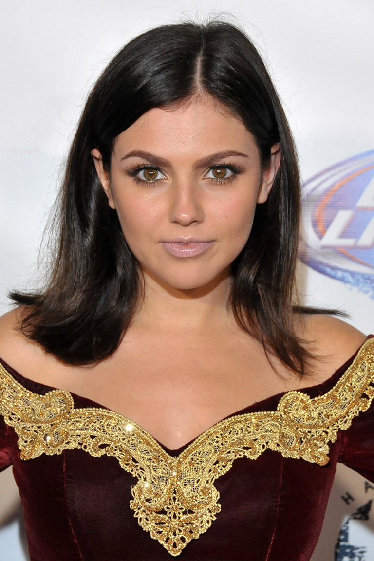 Val Keil, Hollywood California on December 4, 2014 - Photo by Glenn Francis of